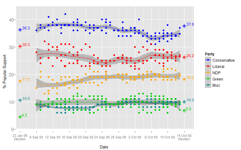 A combination of election period opinion polls during the 2008 Canadian general election. The trend lines are a Local Regressions with α = 0.4 and 95% confidence interval ribbons.